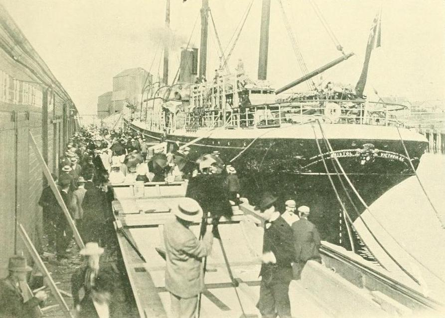 Passengers embarking for Klondike Gold Fields at Victoria BC on board the steamship Bristol.